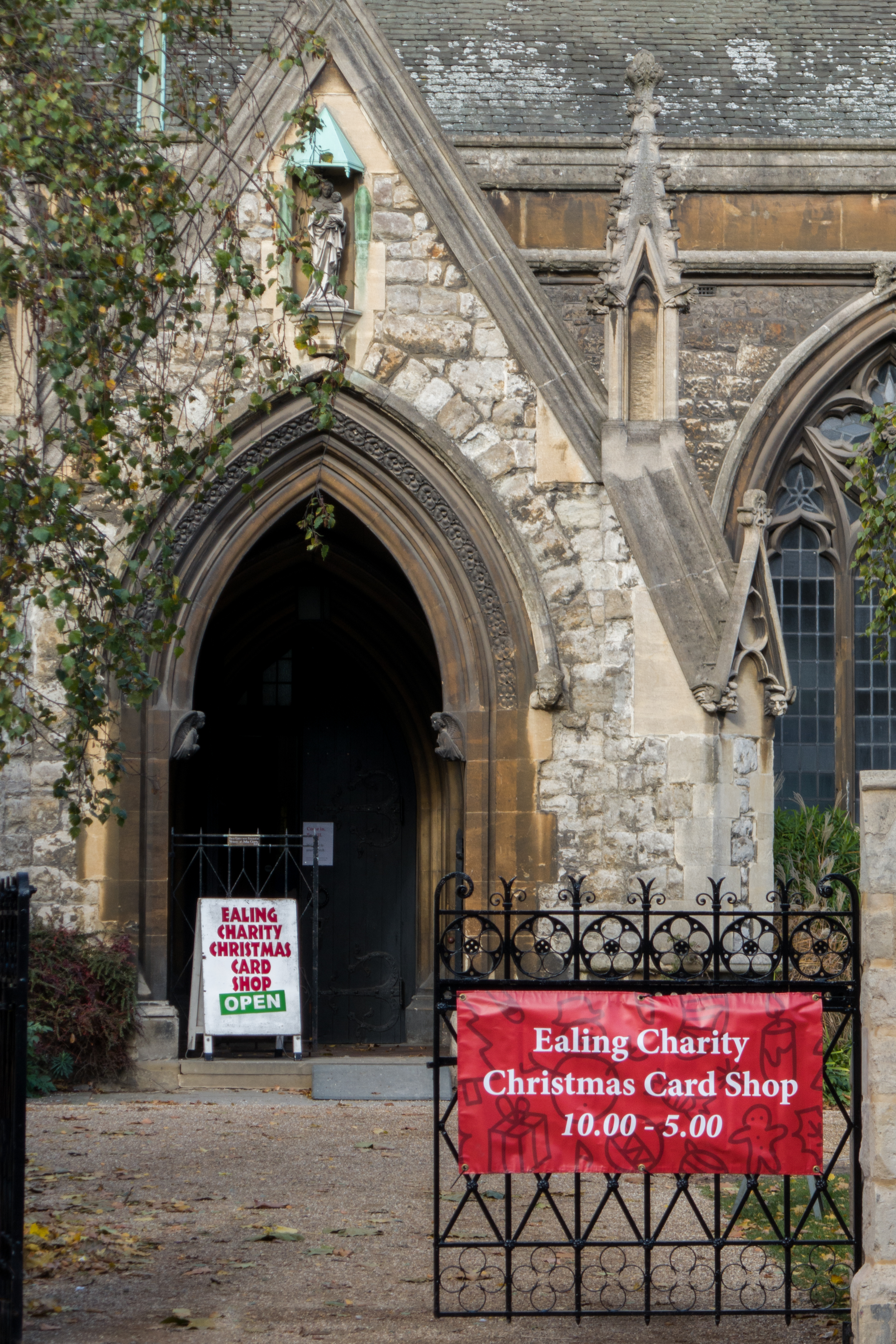 Between 1 November & 20 December 2016 the pop-up Ealing Charity Christmas Card Shop was based at the Church of Christ the Saviour, the parish church of Ealing Broadway, London.